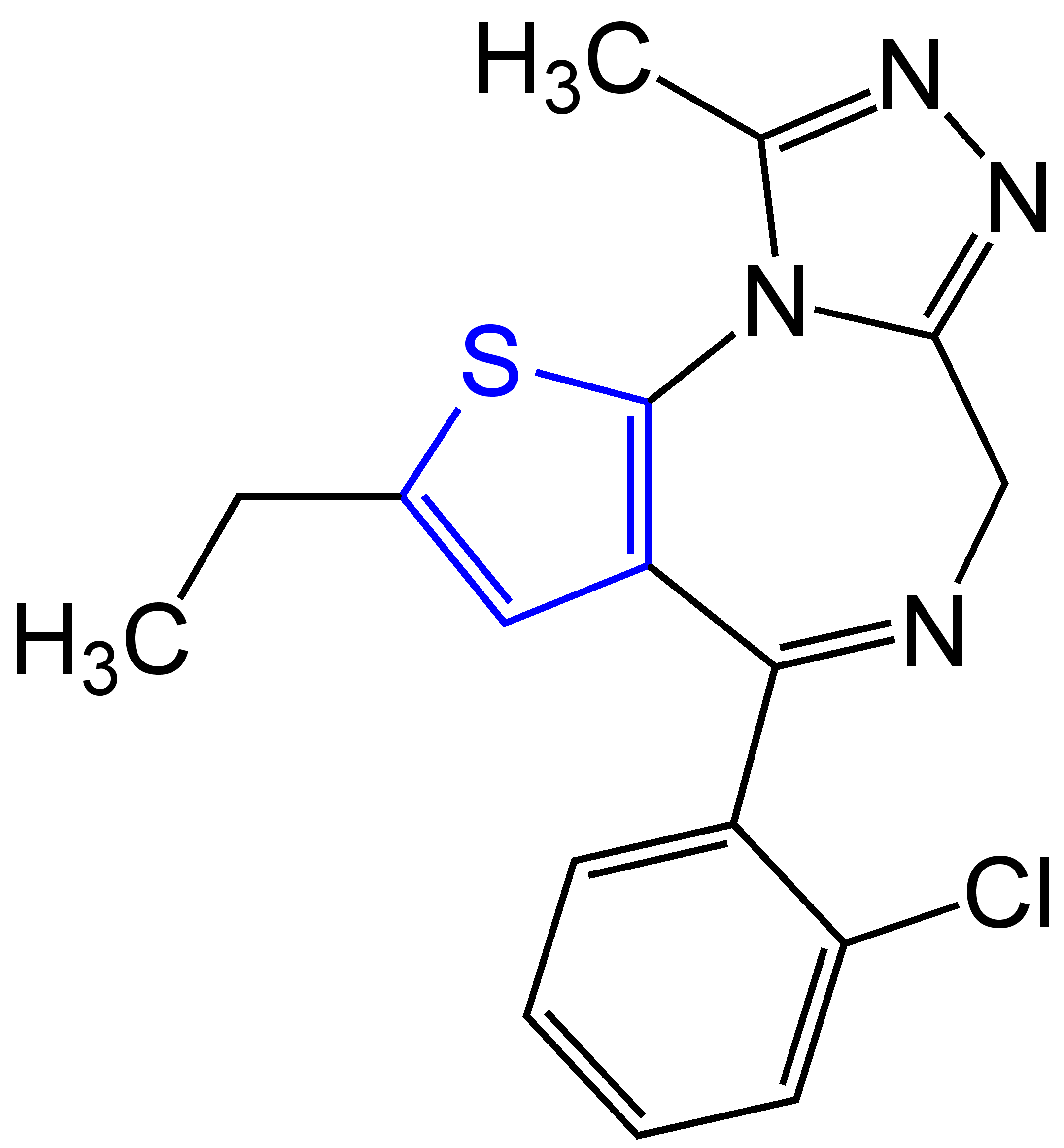 Etizolam